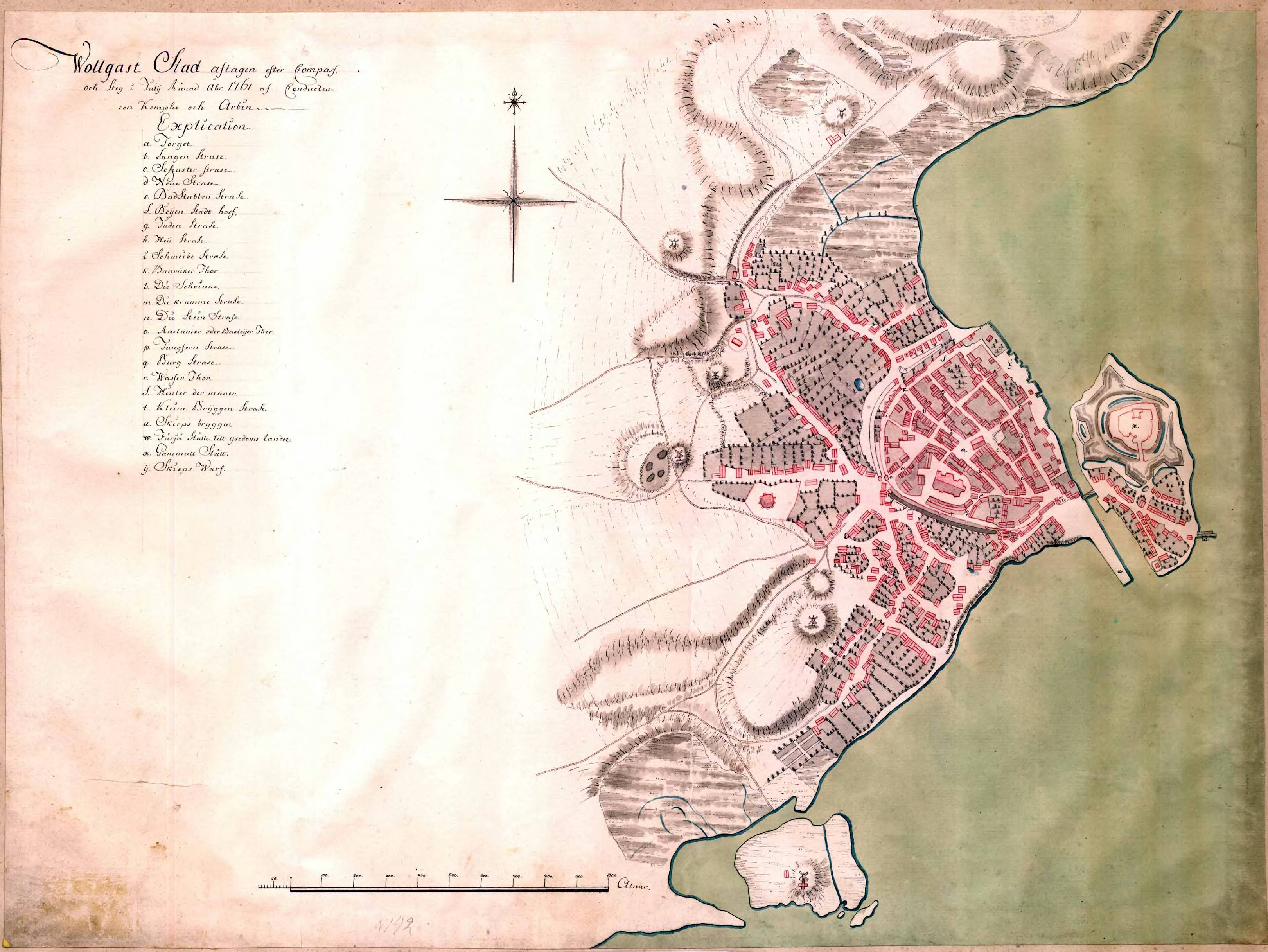 Citymap of Wolgast